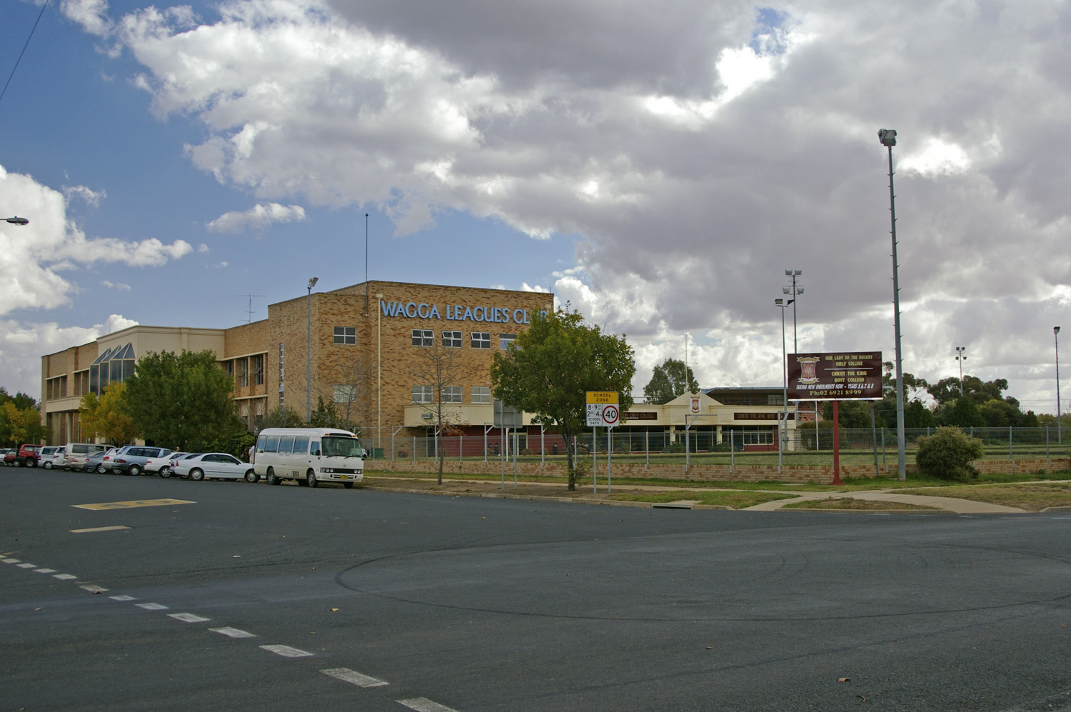 Our Lady of the Rosary Girls Collage and Christ the King Boys Collage at the former Wagga Wagga Leagues Club (Closed June 2004)